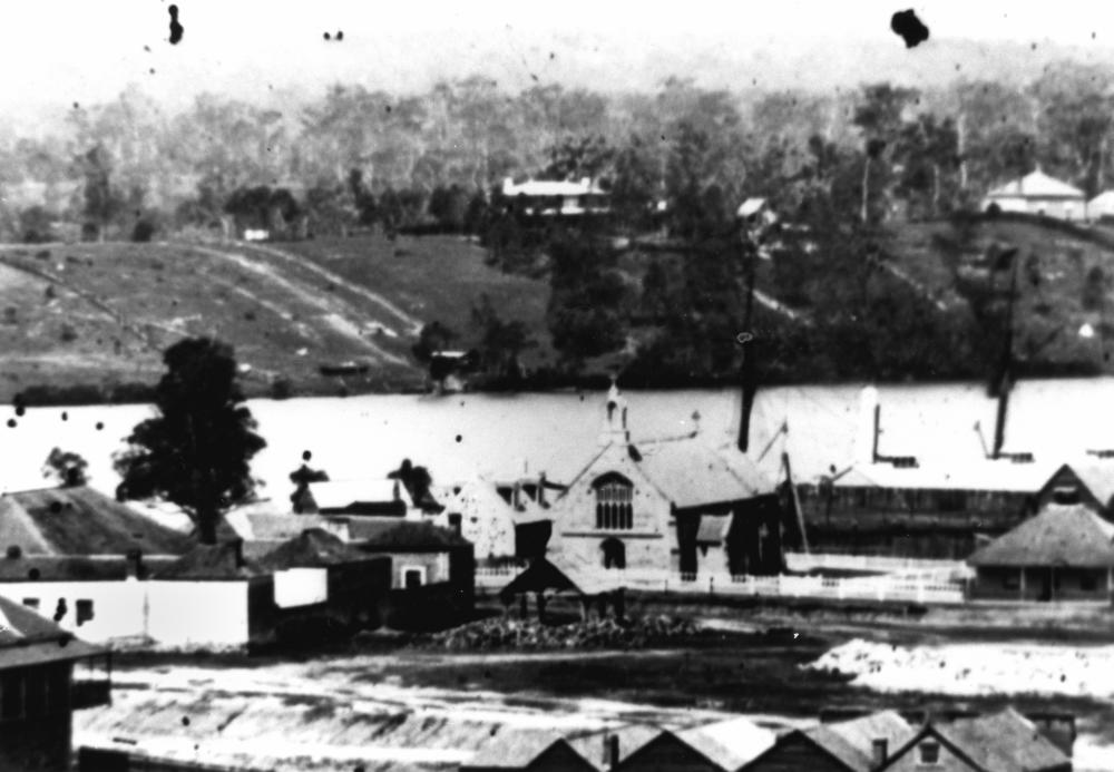 St Stephen's church in the centre of a panoramic view taken in 1862 St Stephen's church situated in Elizabeth Street is in the centre of a panoramic view of Brisbane in 1862. Behind the church is the Brisbane River and Kangaroo Point. The panorama was taken from near the Observatory on Wickham Tce. The church was designed by Augustus Welby Northmore Pugin, an eminent British architect, and built by Andrew Petrie during 1849 and 1850. The chapel was opened for public worship on 12 May 1850.